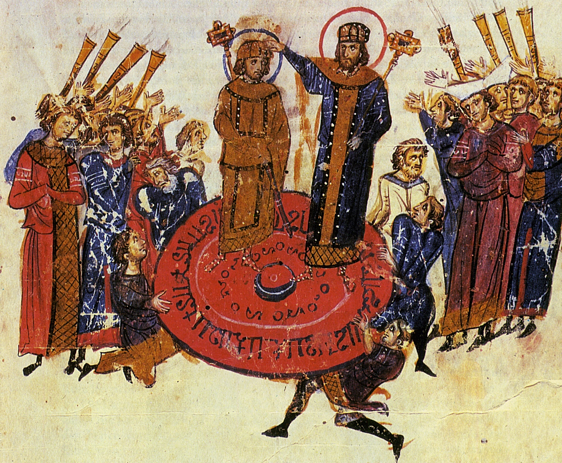 Michael I Rangabe proclaimed Emperor, miniature, Skyllitzes Matritensis, fol. 10v, detail